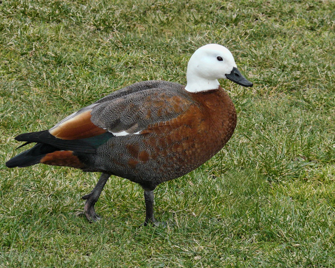 A female Paradise Shelduck in Picton, Marlborough, New Zealand.